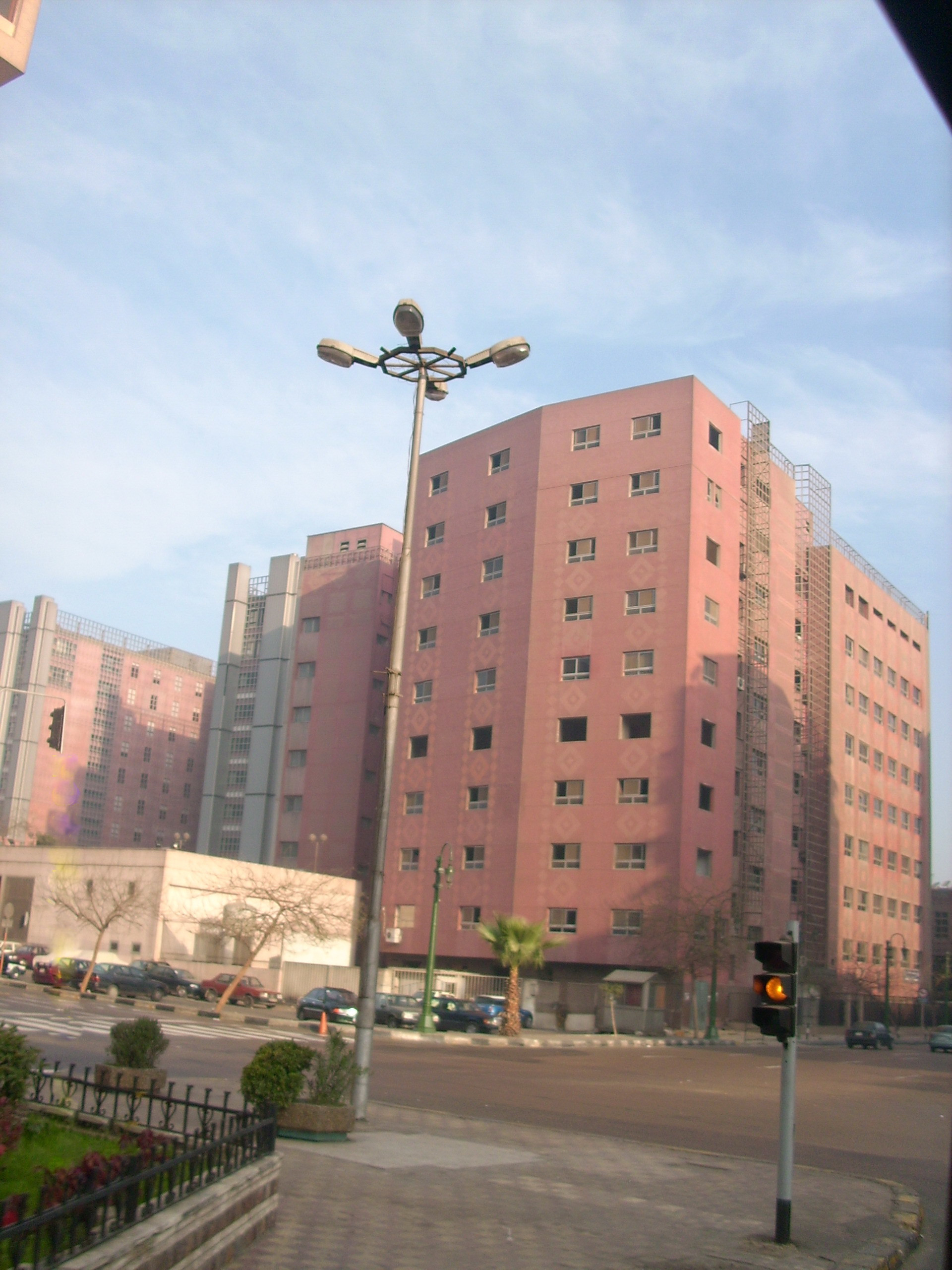 Cairo Univ - New Kasr al-Aini Hospital